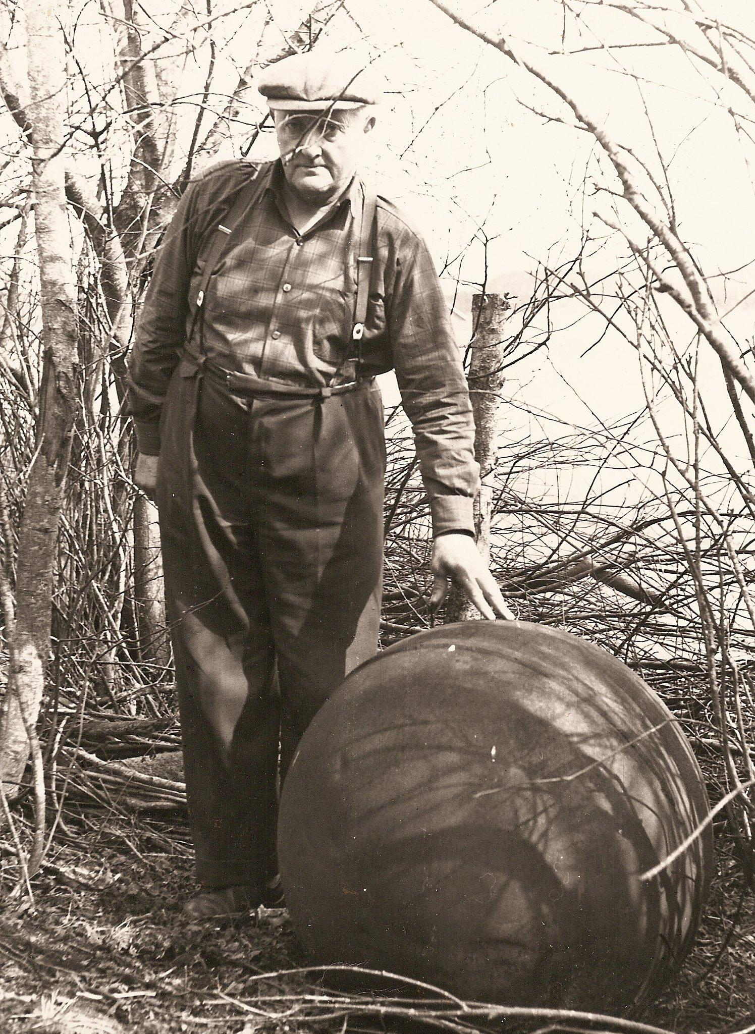 Lars Fløan (sr.) next to a mine from WW2, dropped by the British airforce to sink the German battleship “Tirpitz” in 1942. The picture is taken sometime in the 1940's. The mine was destructed by the Norwegian Army in the 1950's. Local sources tells that the mine's weight was about 250 kilos.